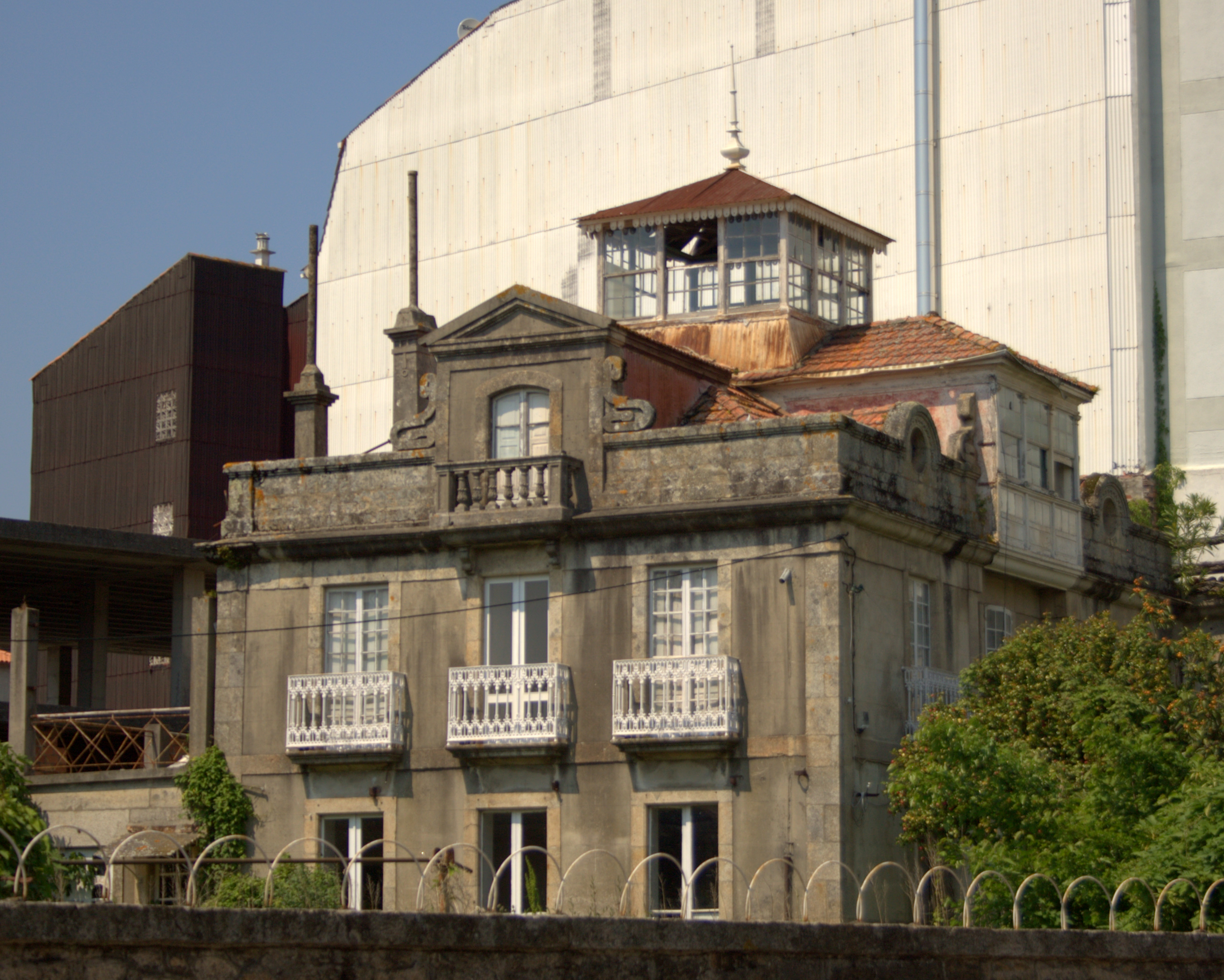 Tower of Escudero[1][2], O Grove, Galicia (Spain). This building is protected by the Spahish Government for its cultural value. Code: (R.I.) - 51 - 0008966 - 00000 . [1] ↑ TurGalicia ↑ Gran Enciclopedia Galega Silverio Cañada